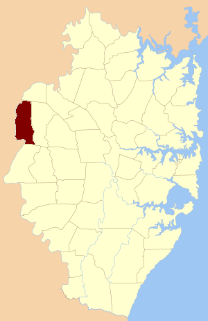 original location of the parish within Cumberland County, New South Wales (Sydney area)